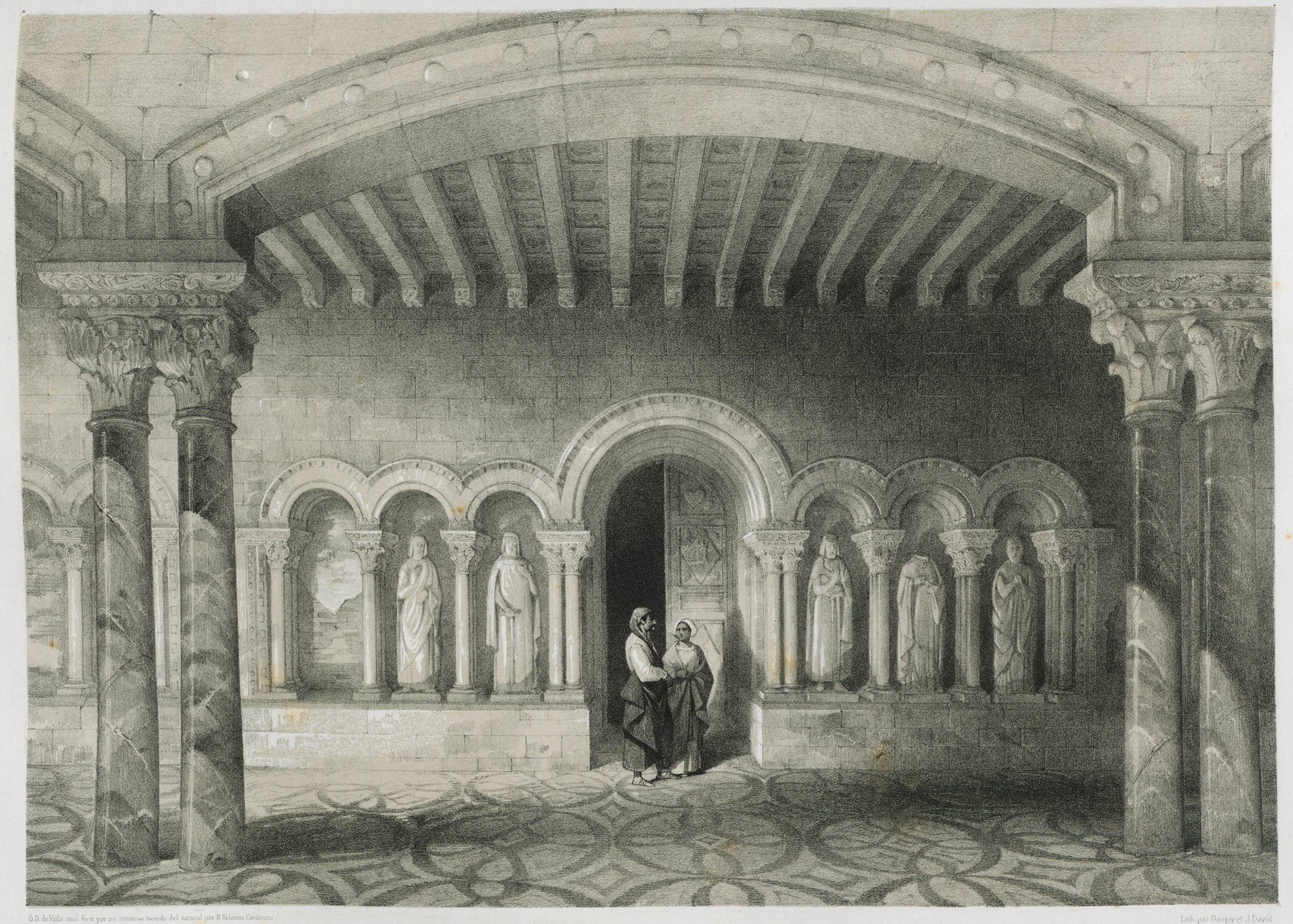 Interior of the Monastery of Bénévivere by Jean Charles Léon Danjoy (1806 - 1862)